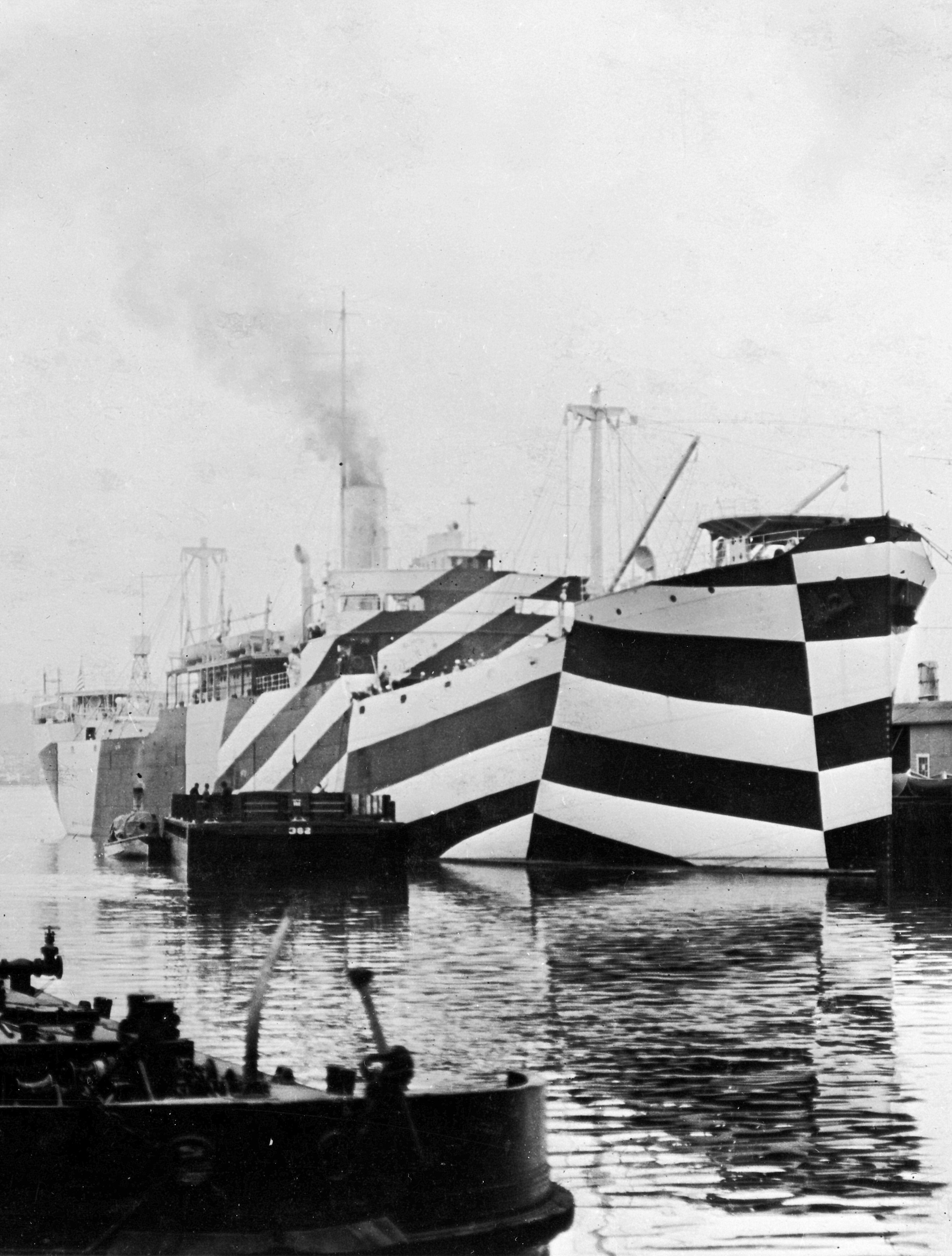 (ID # 3681) In port, circa November 1918. Note how her Dazzle camouflage greatly distorts the apparent aspect of her bow. Photograph from the Bureau of Ships Collection in the U.S. National Archives.